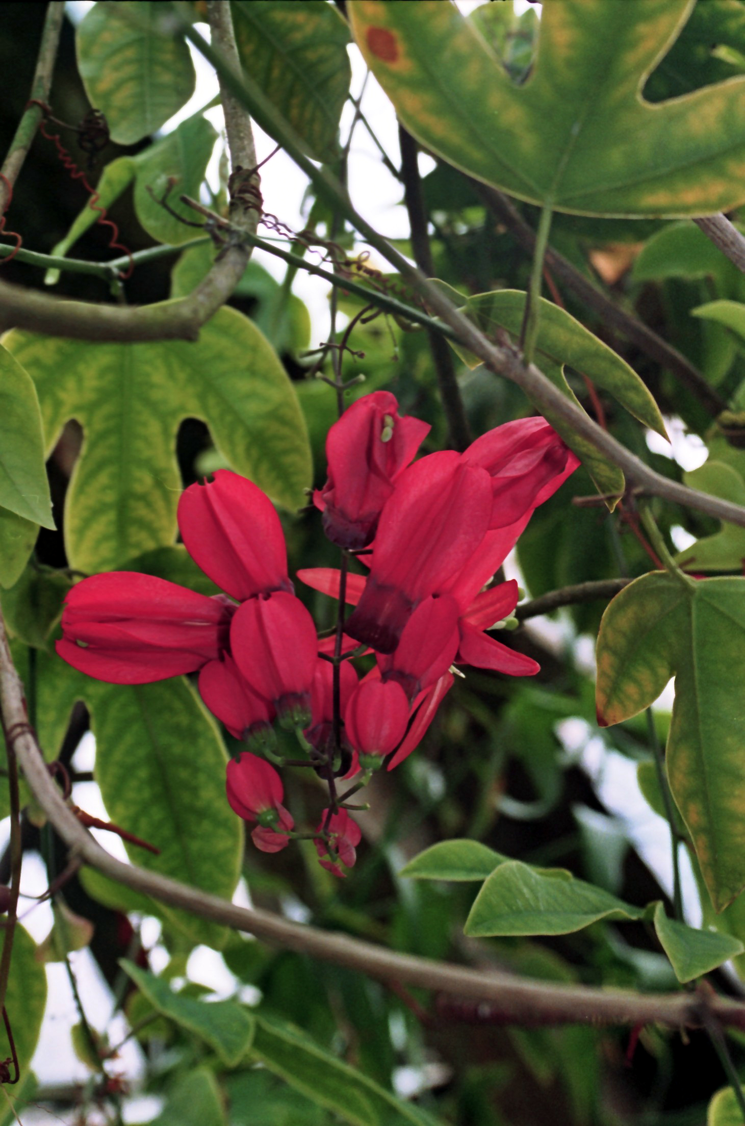 Greenhouses of the Botanical garden (Saint Petersburg).